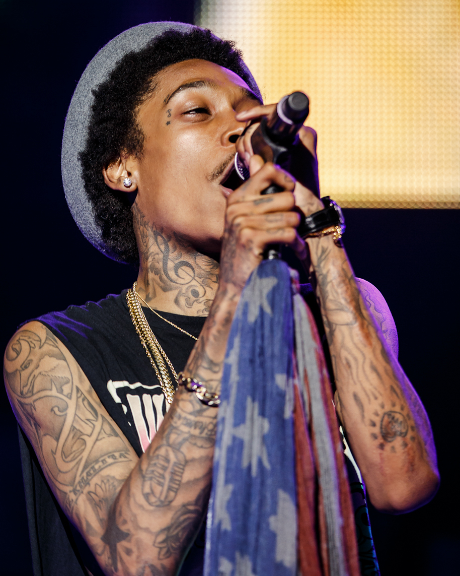 Wiz Khalifa in Under The Influence Tour 2012 in Toronto.